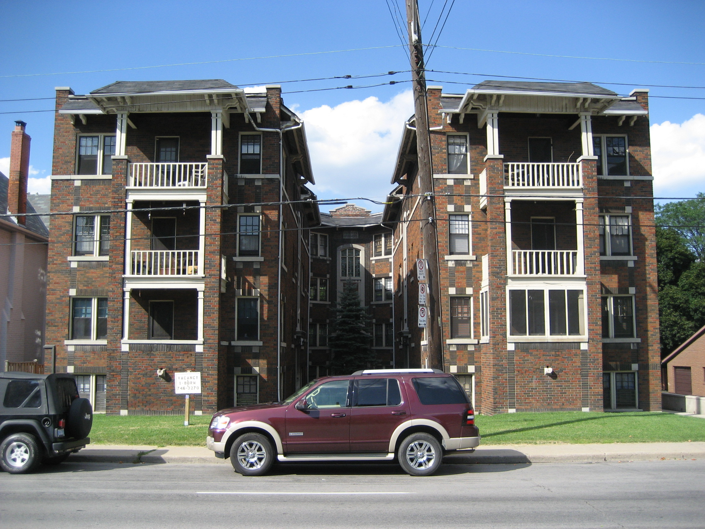 Aberdeen Apartments, Aberdeen Avenue West, Hamilton, Canada.